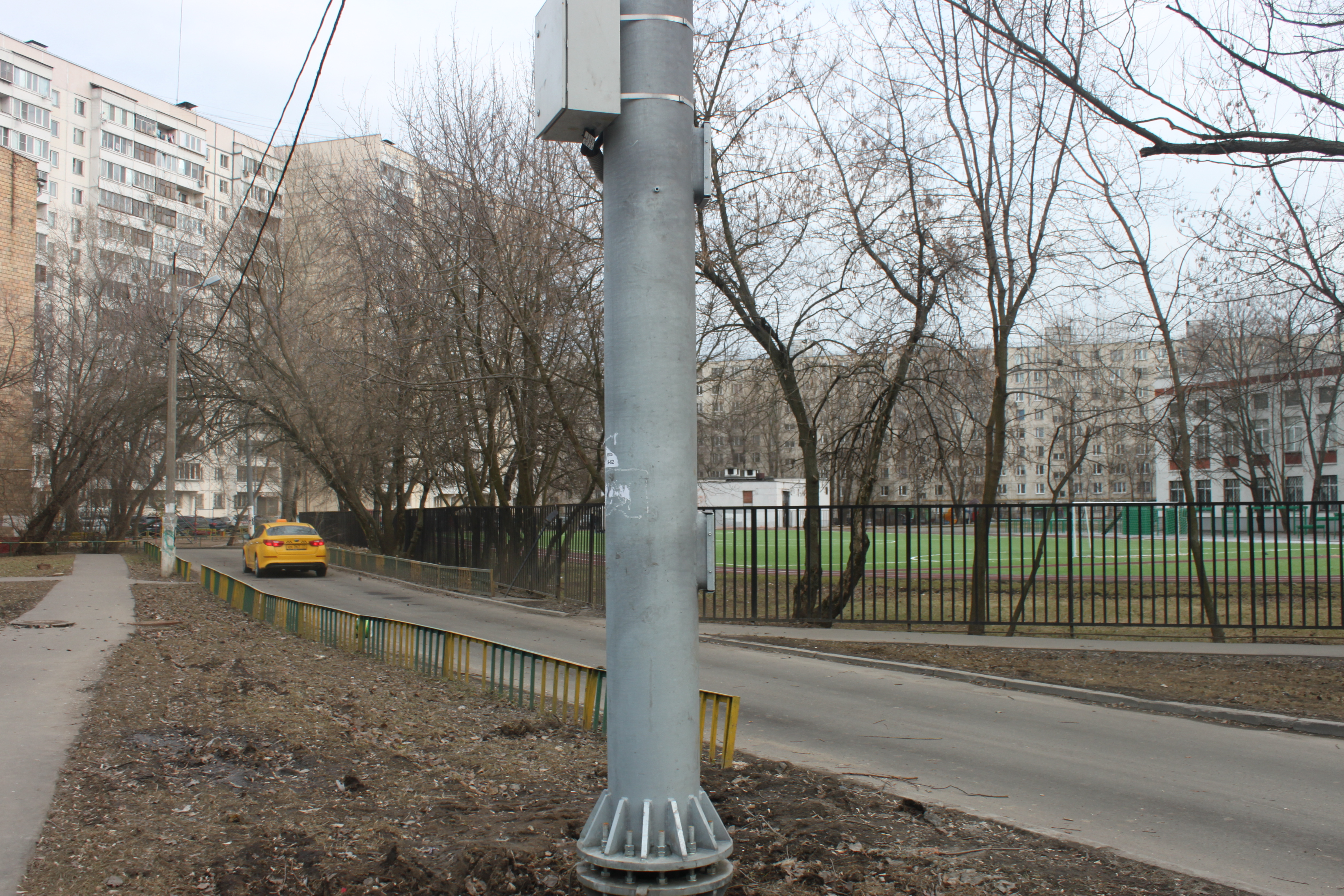 Minusinskaya Street (Moscow).